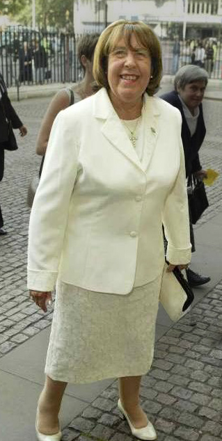 Kathy Staff outside at a gathering